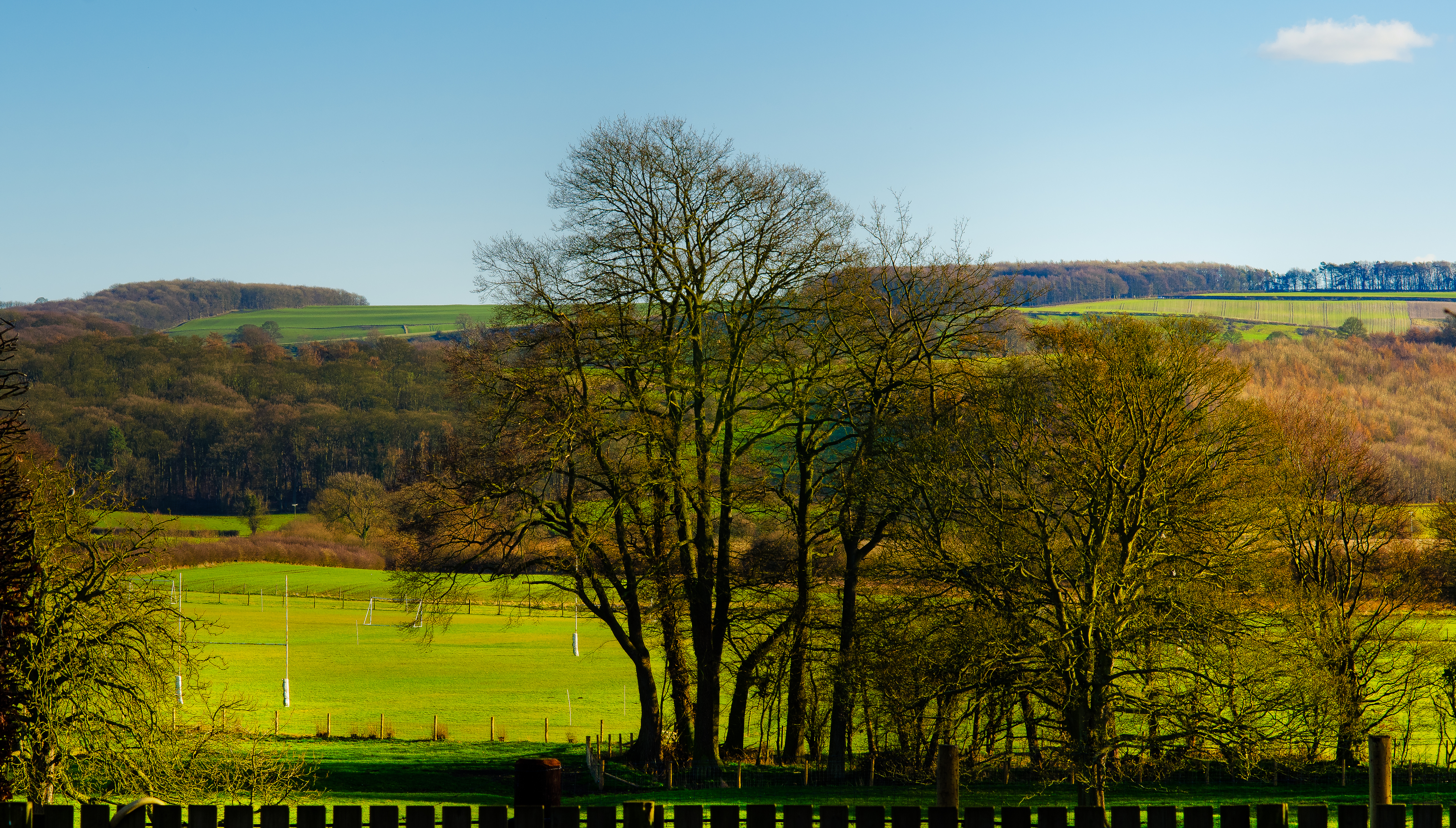 Become a fan on facebook photo by Thomas Tolkien. Available via Creative Commons attribution license. CC-BY. (Photographer must be credited in the manner detailed on the photo information.)